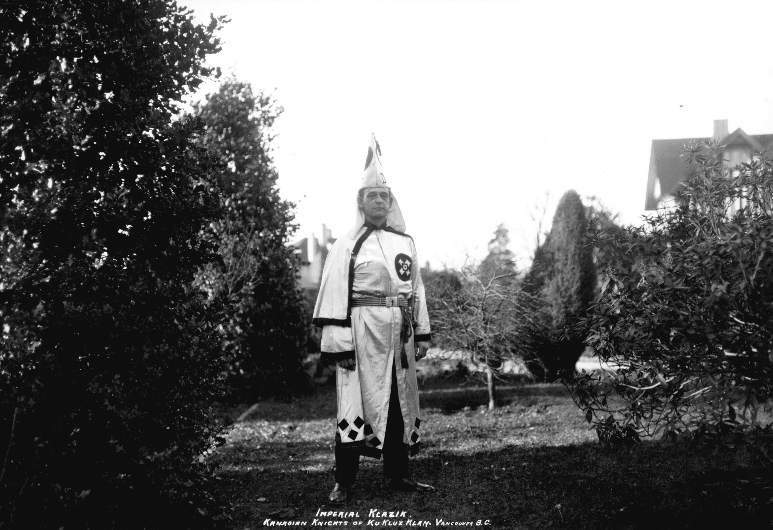 Unidentified Imperial Klazik of the Ku Klux Klan, British Columbia, 1925.